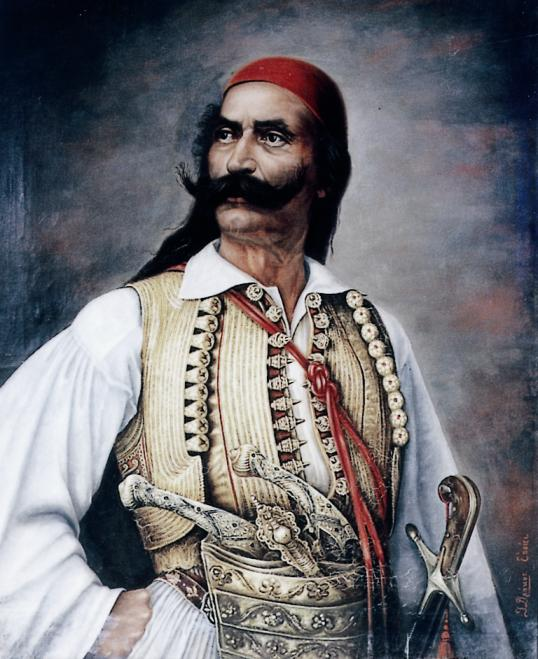 Georgios Drakos Greek Fighter of the 1821 Revolution